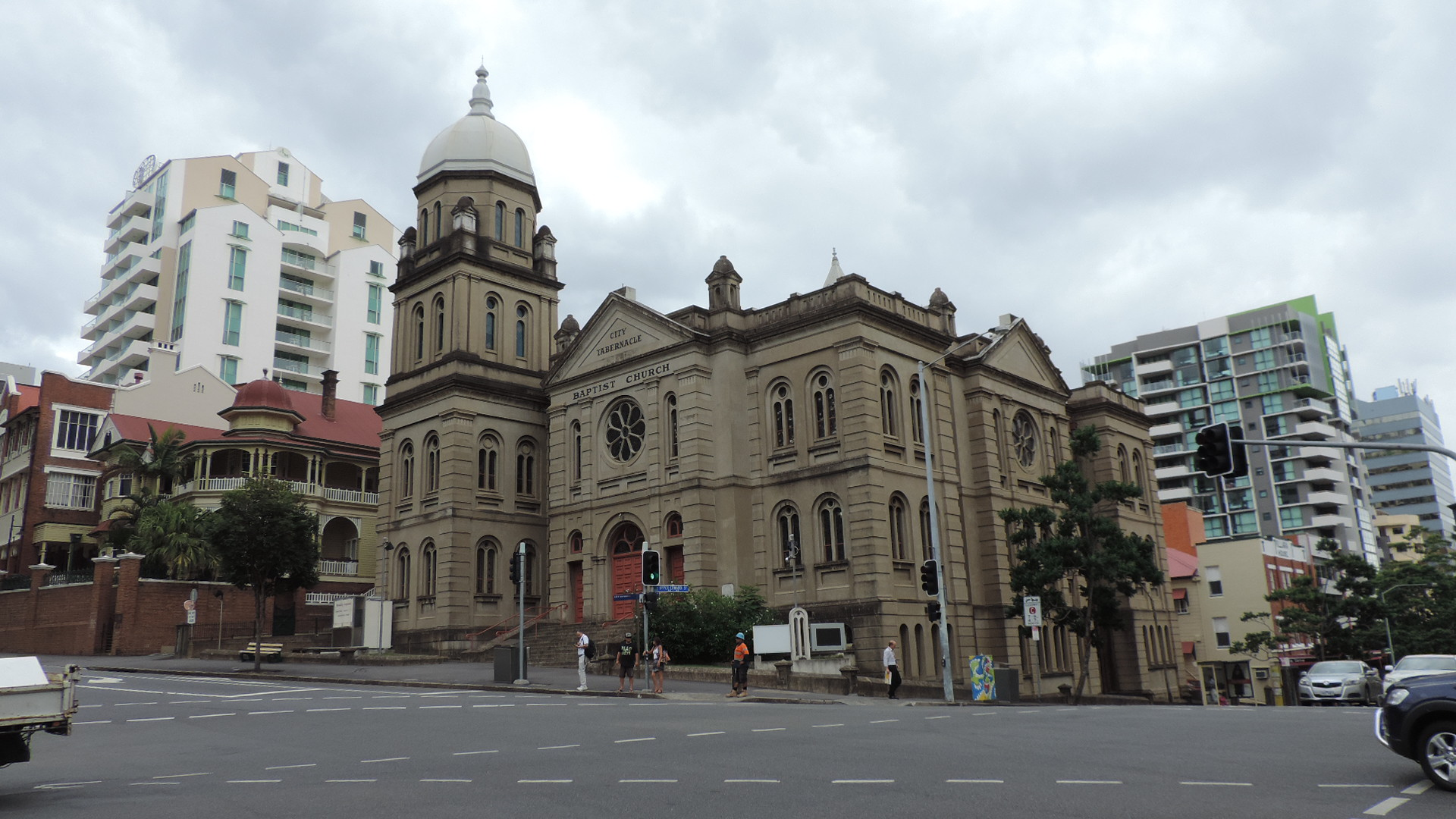 Baptist City Tabernacle, corner of Wickham Terrace and Upper Edward Street, Spring Hill, Brisbane, 2015